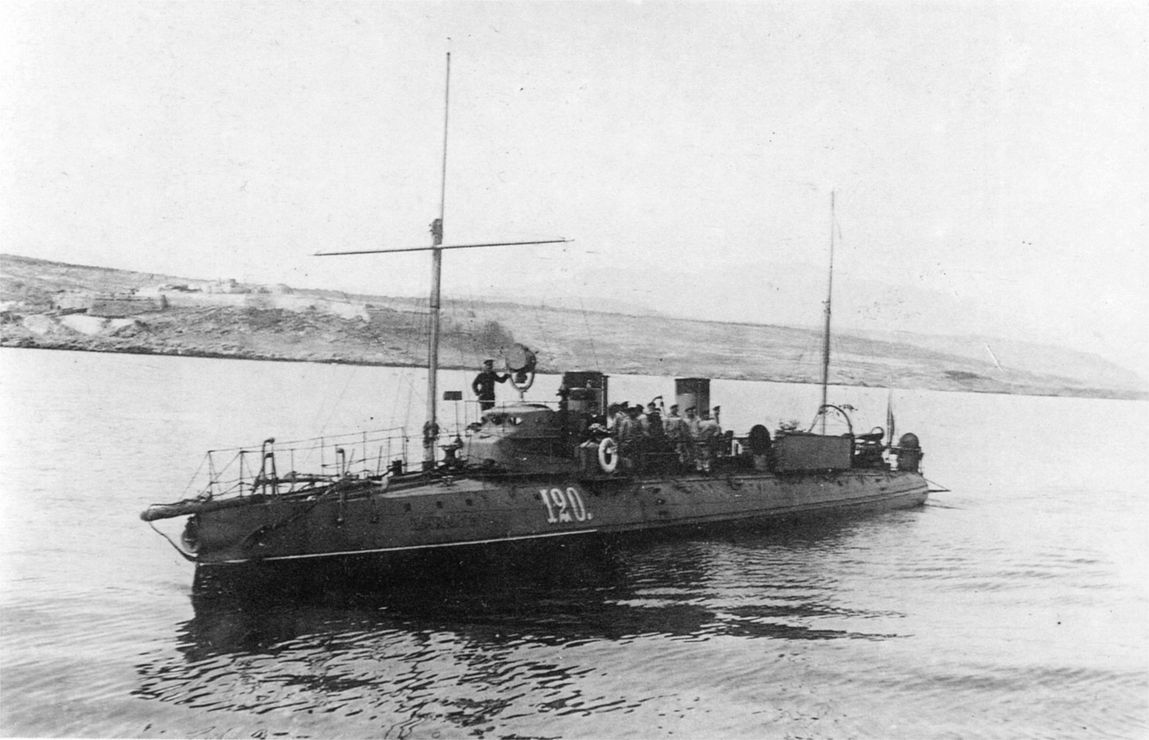 Imperial Russian Torpedo boat No.120, former Pakerort.